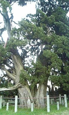 Chinese Juniper (juniperus chinensis) at Kochozen-ji in Minami-alps, Yamanashi, Japan